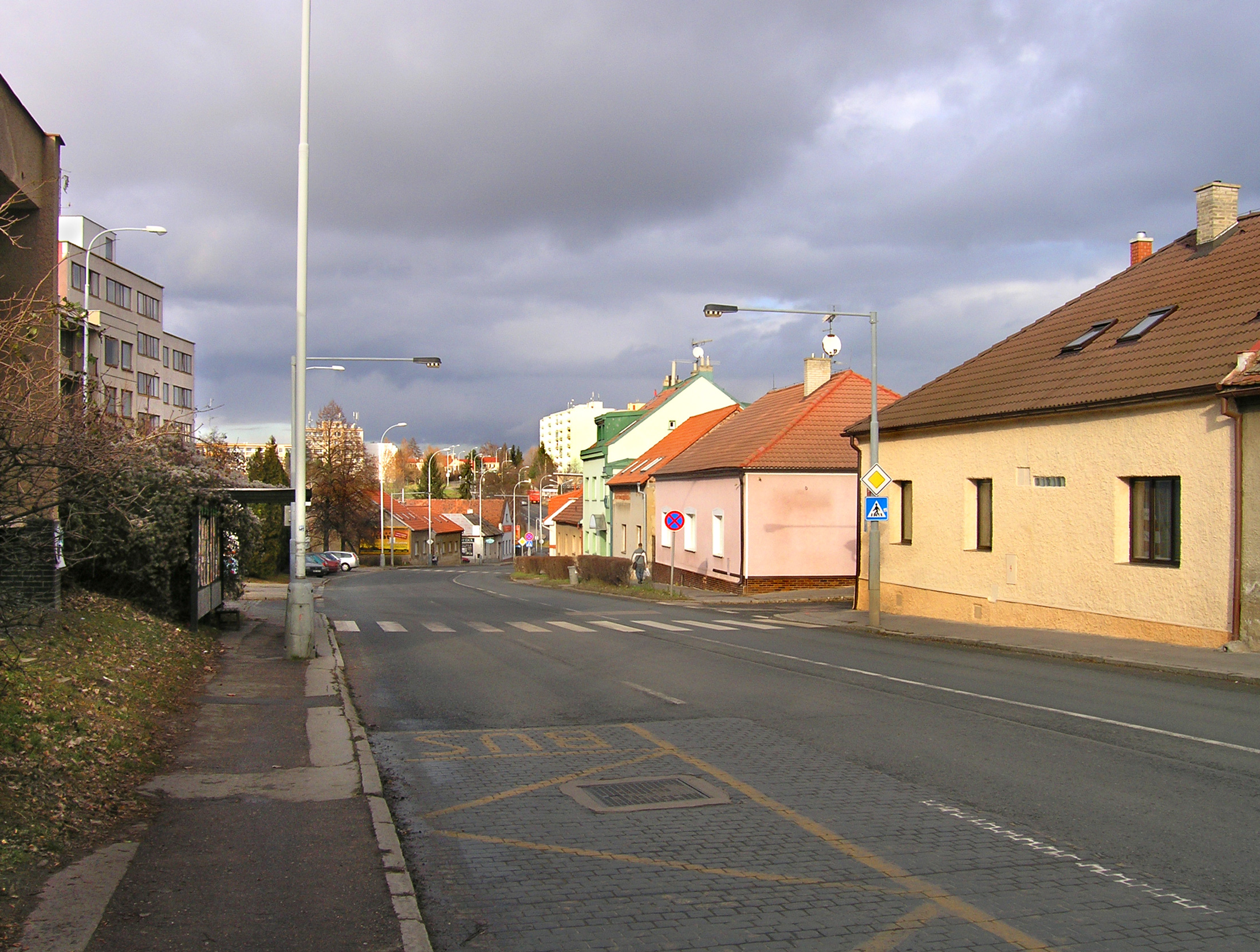 Čimická street in Čimice, Prague